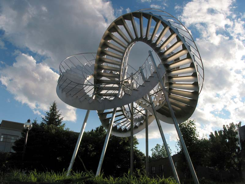 Sculpture Révolutions by Michel de Broin installed in 2003 outside of Papineau metro station in Montreal, Quebec, Canada